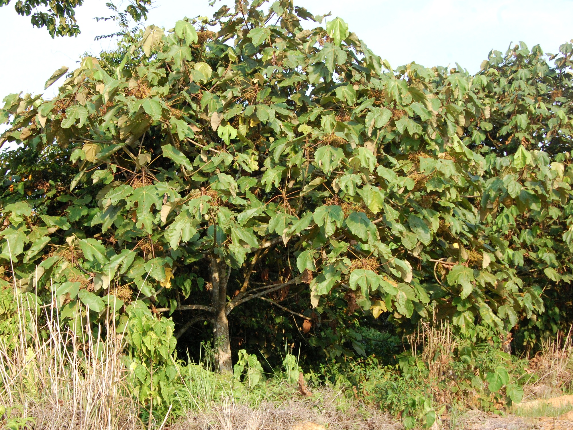 Macaranga gigantea; habits. From Seruyan, Central Kalimantan, Indonesia.